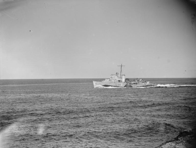 The Royal Navy during the Second World War HMS WILTON underway at sea off Bizerte. She was a Hunt Class Destroyer, which took part in the blockade off Cape Bon, preventing all Axis chances of achieving a "Dunkirk" from Africa.